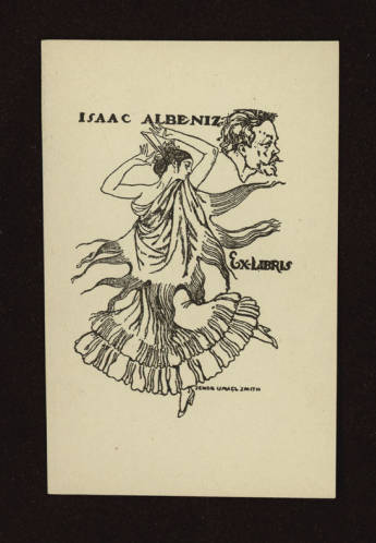 Ex libris (1921?) from the Spanish composer and pianist Isaac Albeniz.